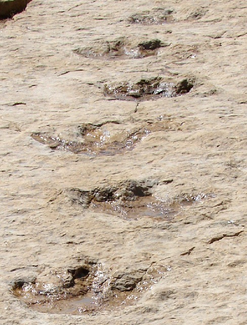 From cc-by licensed See Dinosaur tracks found on Arabian Peninsula